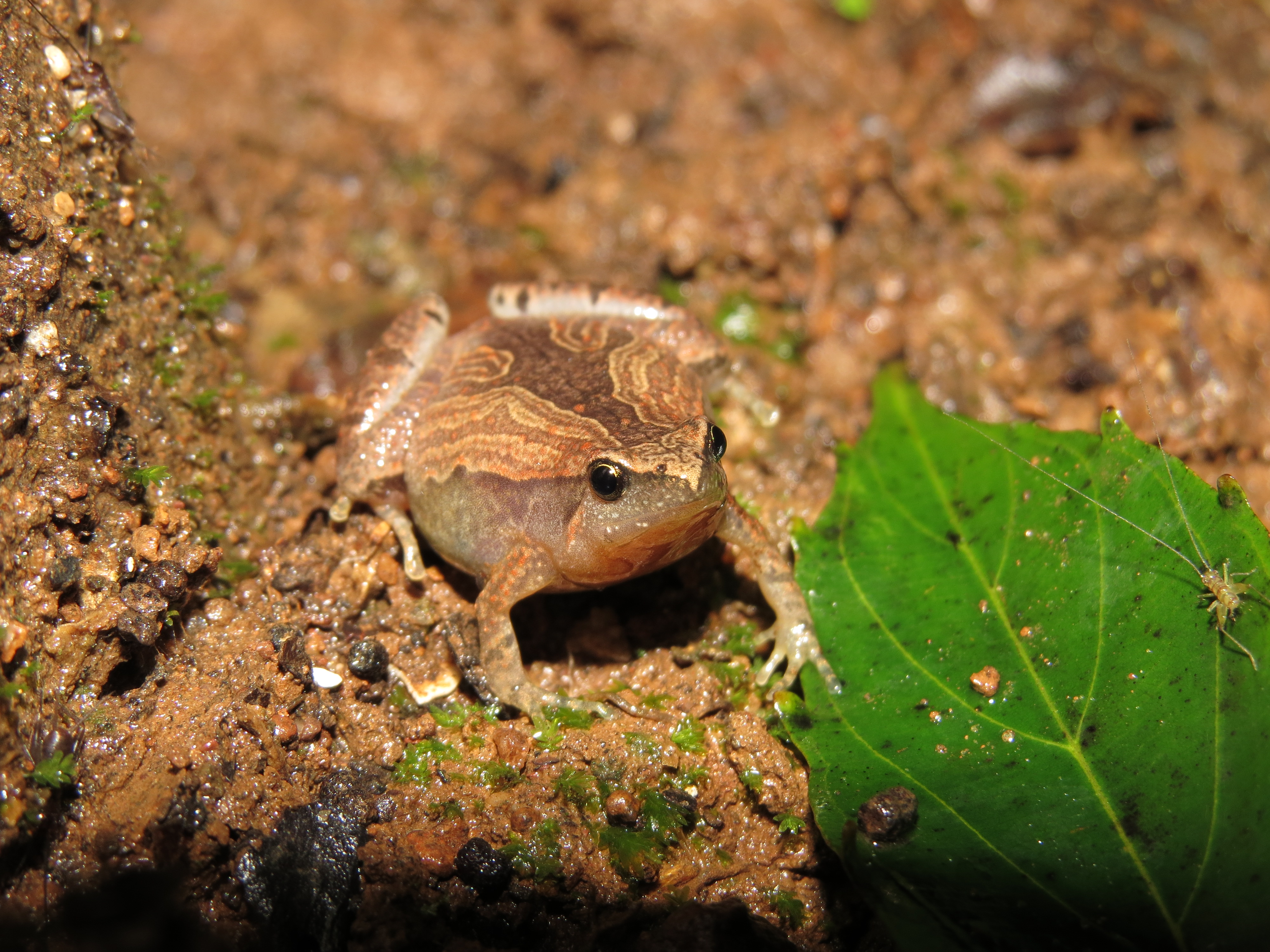 A Microhyla sholigari - clicked from the front showing the narrow mouth as well as flanks and some dorsum.